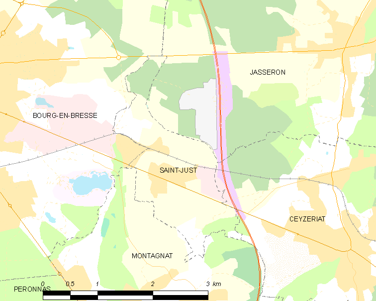 Map of French commune: Saint-Just Map commune FR insee code 01369.png